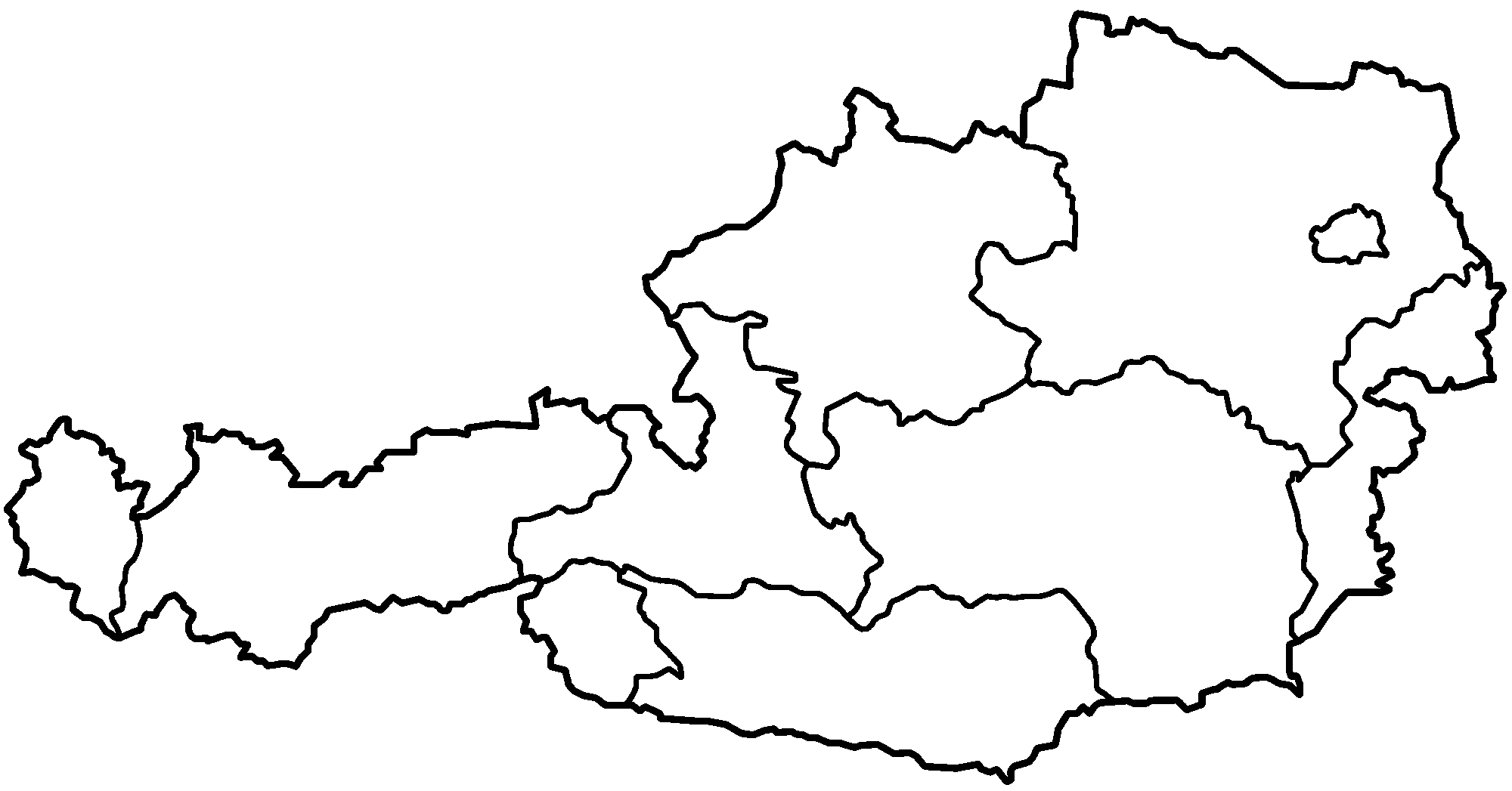 Blank map of the states of Austria, useful for numbering/labelling in other languages. Made by User:Golbez.